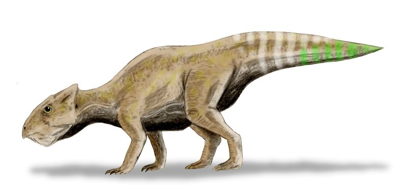 Yamaceratops dorngobiensis, a ceratopsian from the Early Cretaceous of Mongolia, pencil drawing, digital coloring